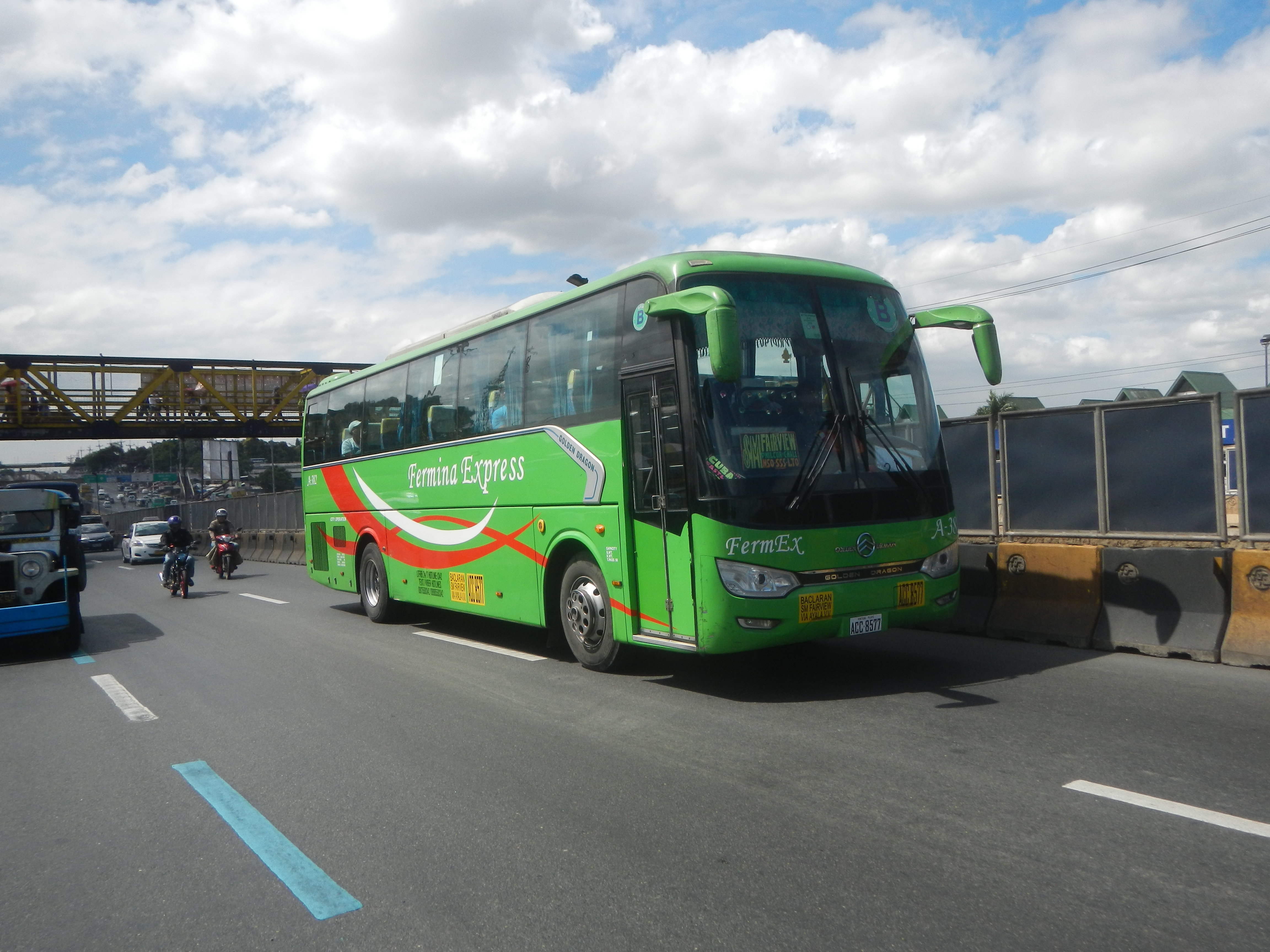 Commonwealth Avenue (Central Avenue - Barangays Batasan Hills, Old Balara, Holy Spirit & Commonwealth, Quezon City Section) Commonwealth Avenue, Quezon City formerly known as Don Mariano Marcos Avenue as part of Radial Road 7 (R-7) Commonwealth Avenue (N170/R-7) 14°42'23"N 121°4'2"E Construction of Manila Metro Rail Transit System Line 7 (Fairview, North Fairview and Commonwealth Avenue) Barangay Fairview, Novaliches, Quezon City; Regalado Avenue corner Commonwealth Avenue and also Quirino Highway starting from Legislative districts of Quezon City District 5, Fairview 14°42'8"N 121°4'10"E Pasong Putik 14°43'51"N 121°3'45"E to Kaligayahan, 14°44'5"N 121°2'47"E North Fairview 14°42'48"N 121°3'43"E Novaliches,Quezon City Novaliches, District, Barangays of Quezon City, Quezon City (Note: Judge Florentino Floro, the owner, to repeat, Donor Florentino Floro of all these photos hereby donate gratuitously, freely and unconditionally all these photos to and for Wikimedia Commons, exclusively, for public use of the public domain, and again without any condition whatsoever).